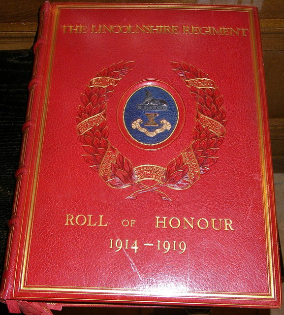 Lincolnshire Regiment :Roll of Honour :1914-1918 This book which measures 230mm by 150mm, contains over 8000 names of men who died for King and Country serving in the Lincolnshire Regiment. The book lists the names of the officers first and then the Warrant officers and other ranks in Battalion order. It is displayed in a wooden case in the Services Chapel of Lincoln Cathedral